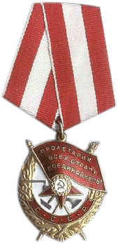 Soviet "Order of the Red Banner"